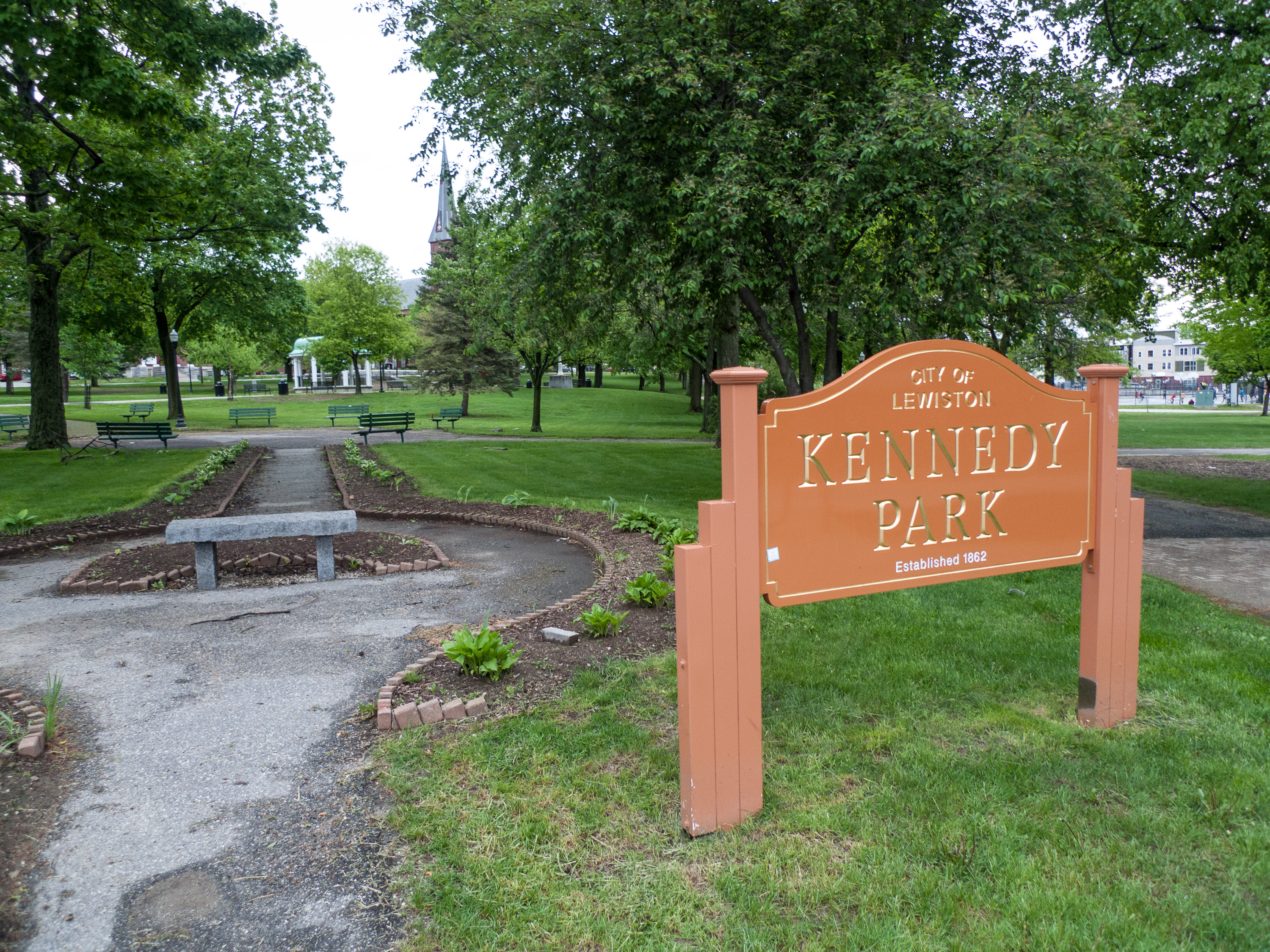 Kennedy Park, Lewiston, Maine